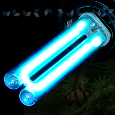 UV emitting gas Discharge lamp for sterilisation of water